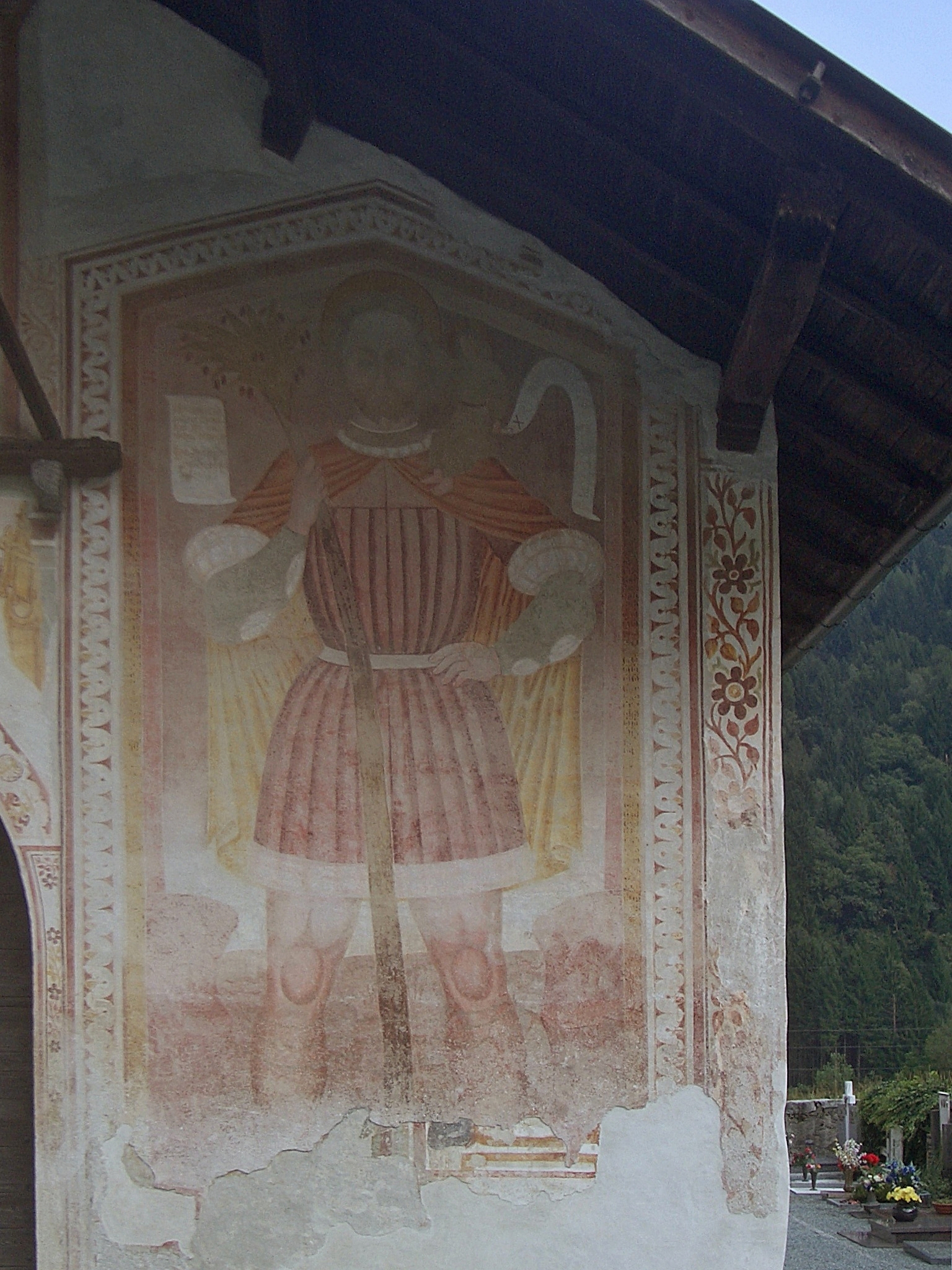 Dionisio Baschenis, Saint Christopher, fresco, 1493, Pelugo, Sant'Antonio Abate church